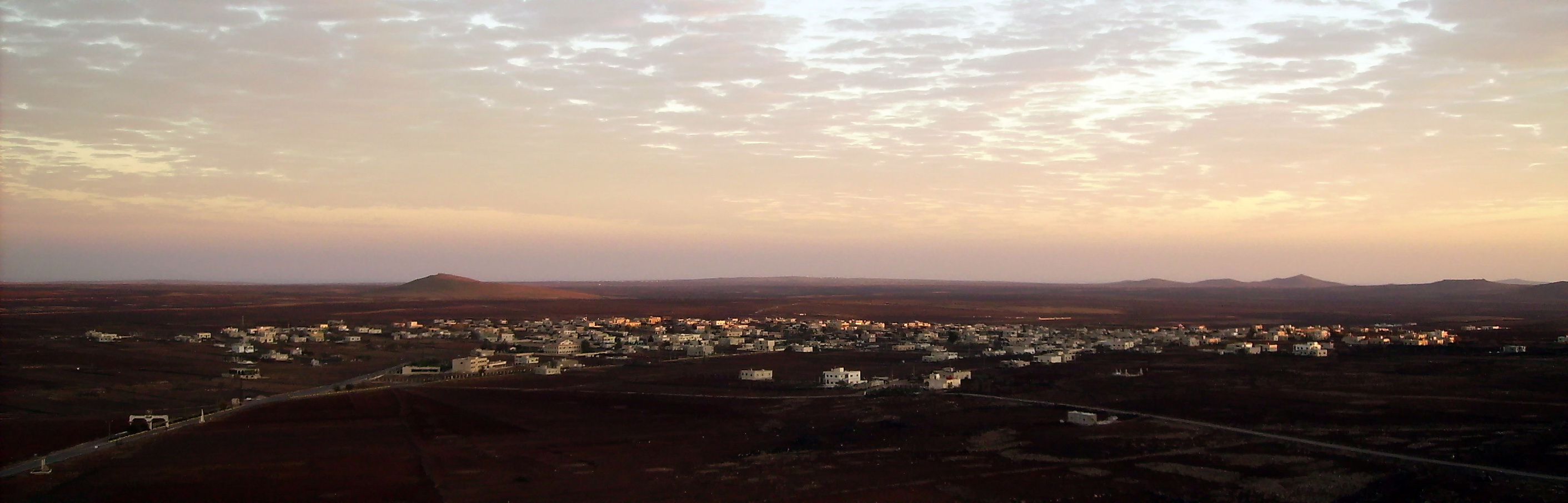 Panoramic view of the village of Imtan in as-Suwayda Governorate, Syria